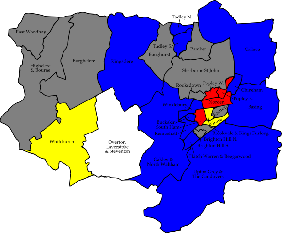 A map of the results of the 2007 Basingstoke and Deane Council election. Colour legend by wards won: Conservative party Labour party Liberal Democrats Independent Wards in grey were not contested in 2007.